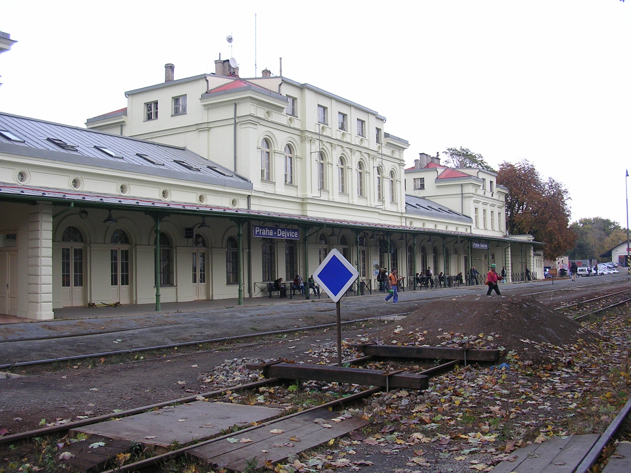 Dejvice, Prague, the Czech Republic. Train station.